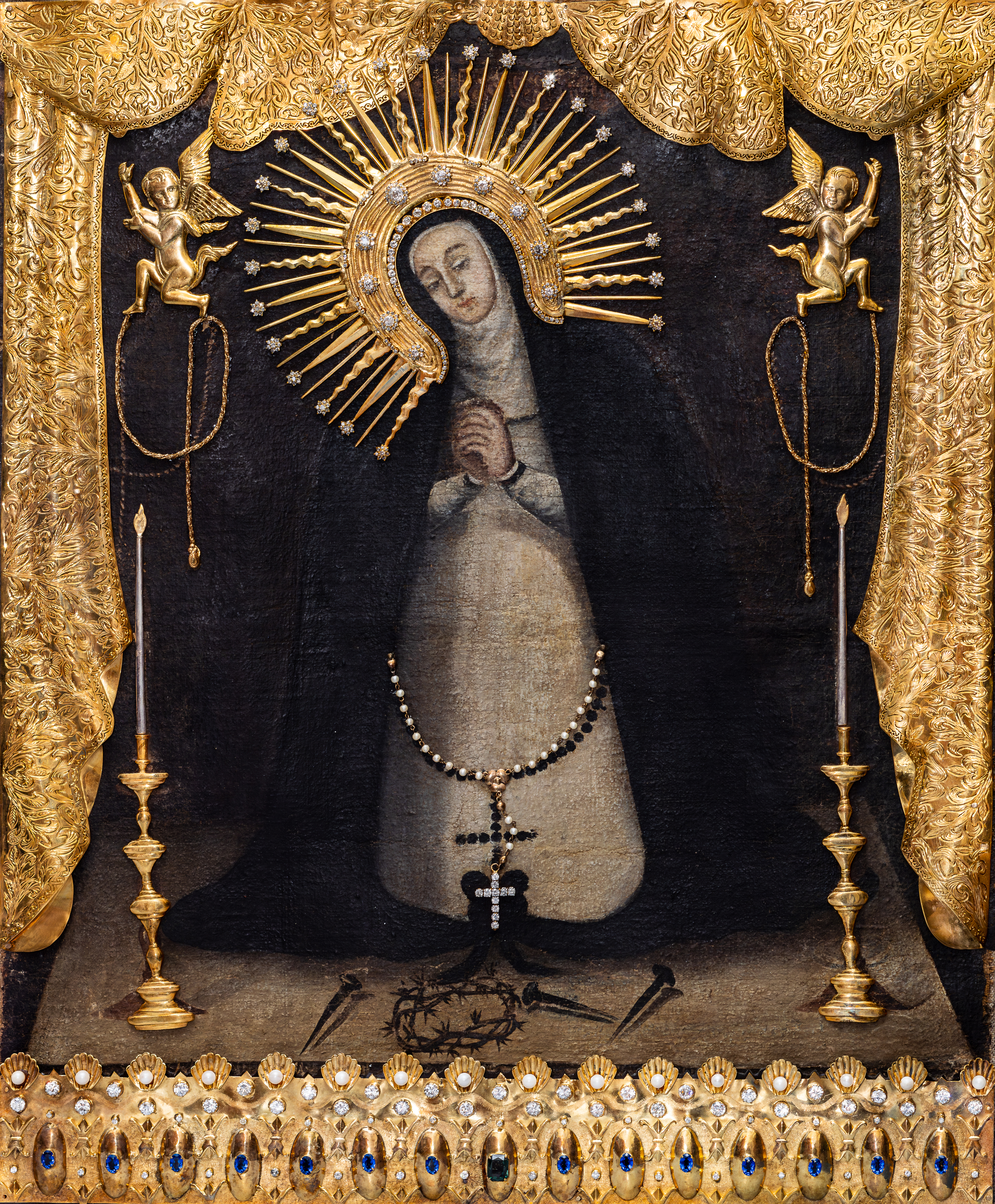 Copyright: Cofraida de la Virgen de la Soledad de Porta Vaga Inc.